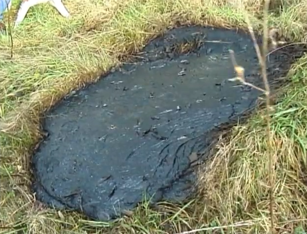 Deel van opvloeiend teer aan de oppervlakte.